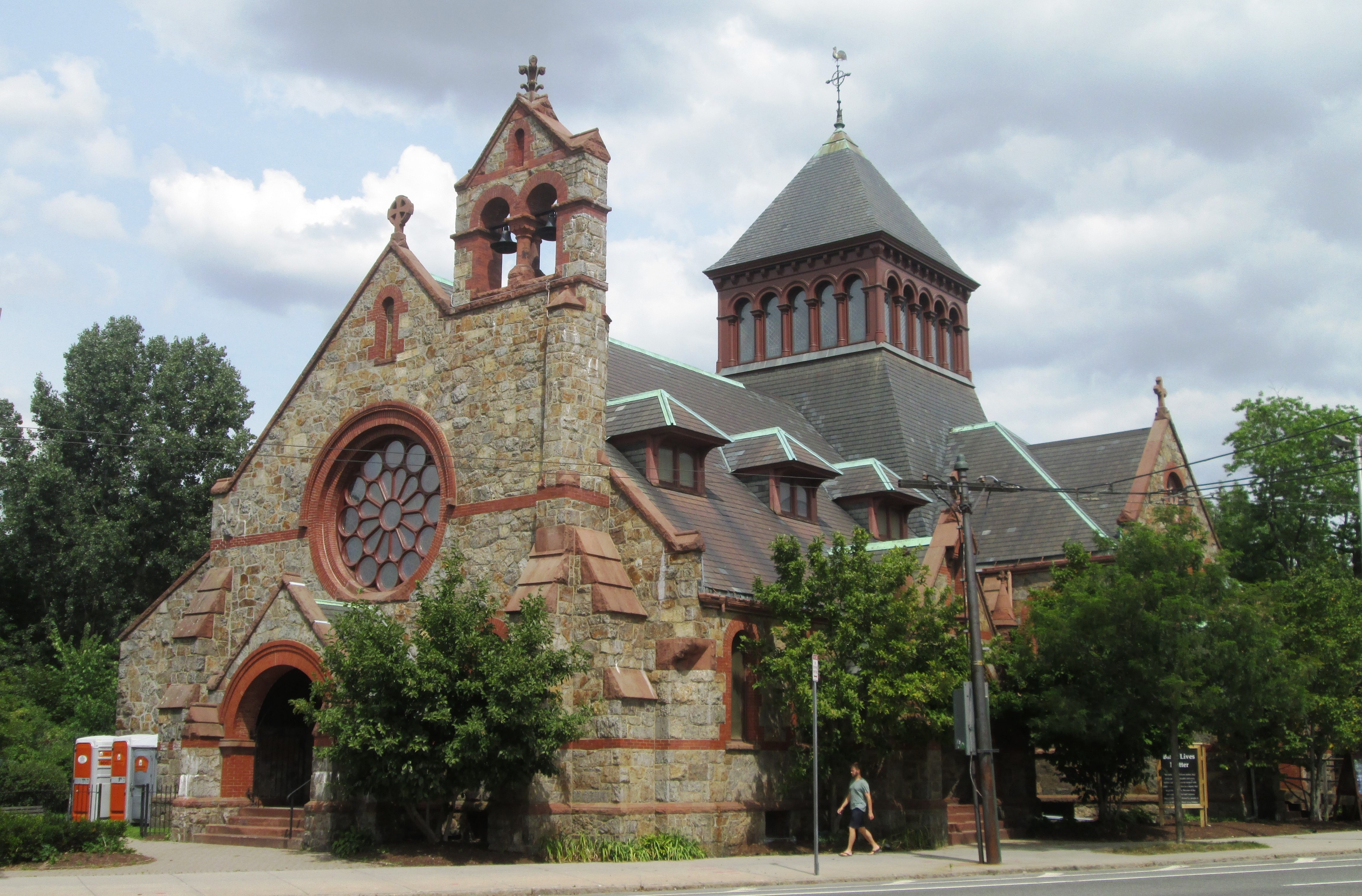 St. James Episcopal Church, located at 1991 Massachusetts Avenue at the corner of Beach Street in the North Cambridhe neighborhood of Cambridge Massachusetts, was built in 1888-89 and was designed by Henry W. Congdon in the Romanesque style. The building was listed on the National Register of Historic Places in 1983.